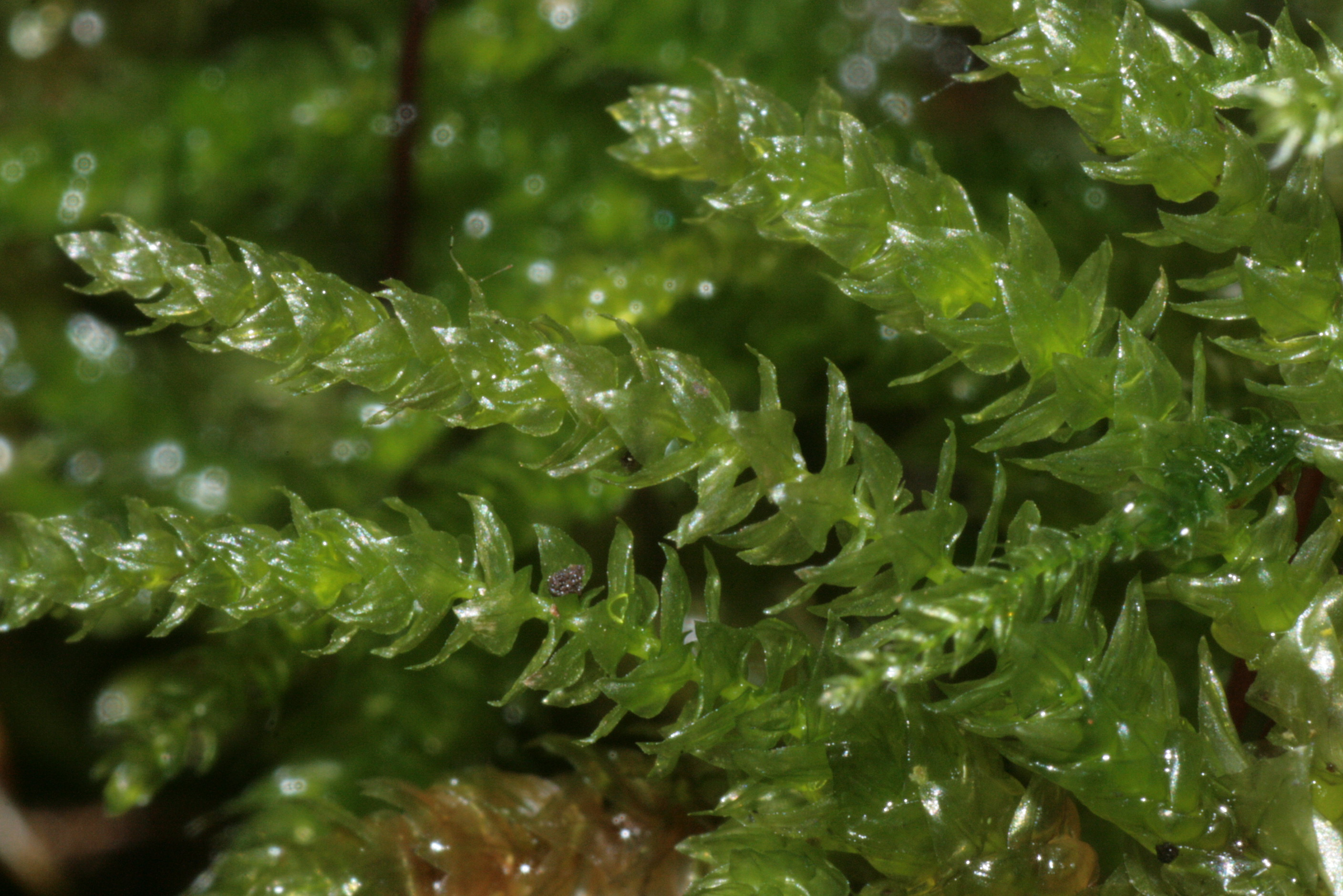 Eurhynchium angustirete